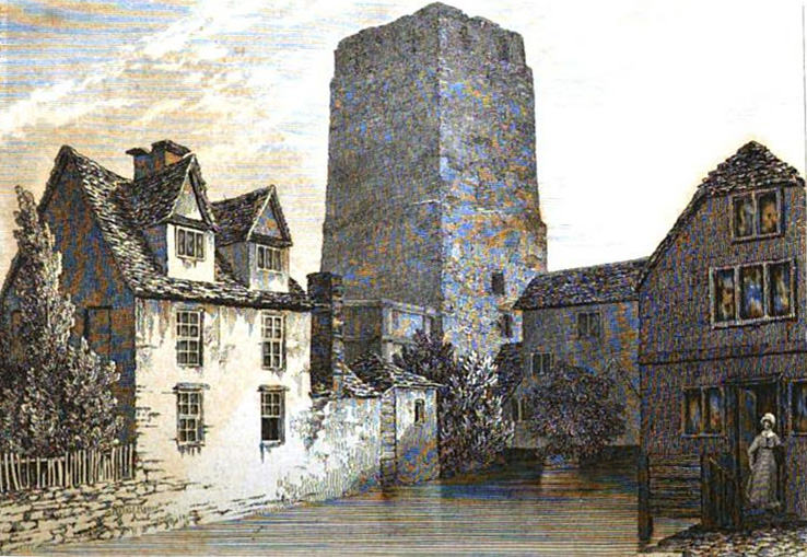 Oxford Castle as seen in 1832